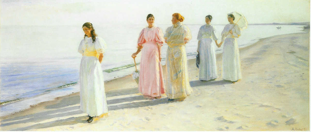 Promenade on the Beach of Skagen